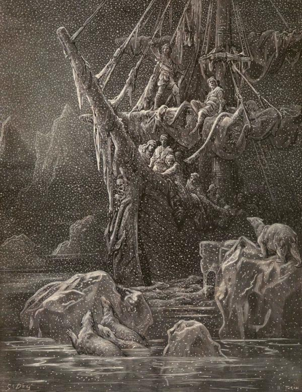 Engraving by Gustave Doré for an 1876 edition of Samuel Taylor Coleridge's The Rime of the Ancient Mariner. Captioned "It Was Wondrous Cold," it depicts sailors in the forward part of a sailing ship, with sea lions off the bow.